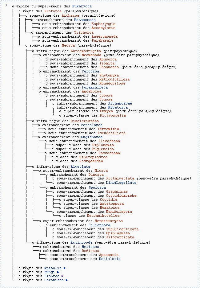 Eukaryota_Classification_selon_Cavalier-Smith_1998